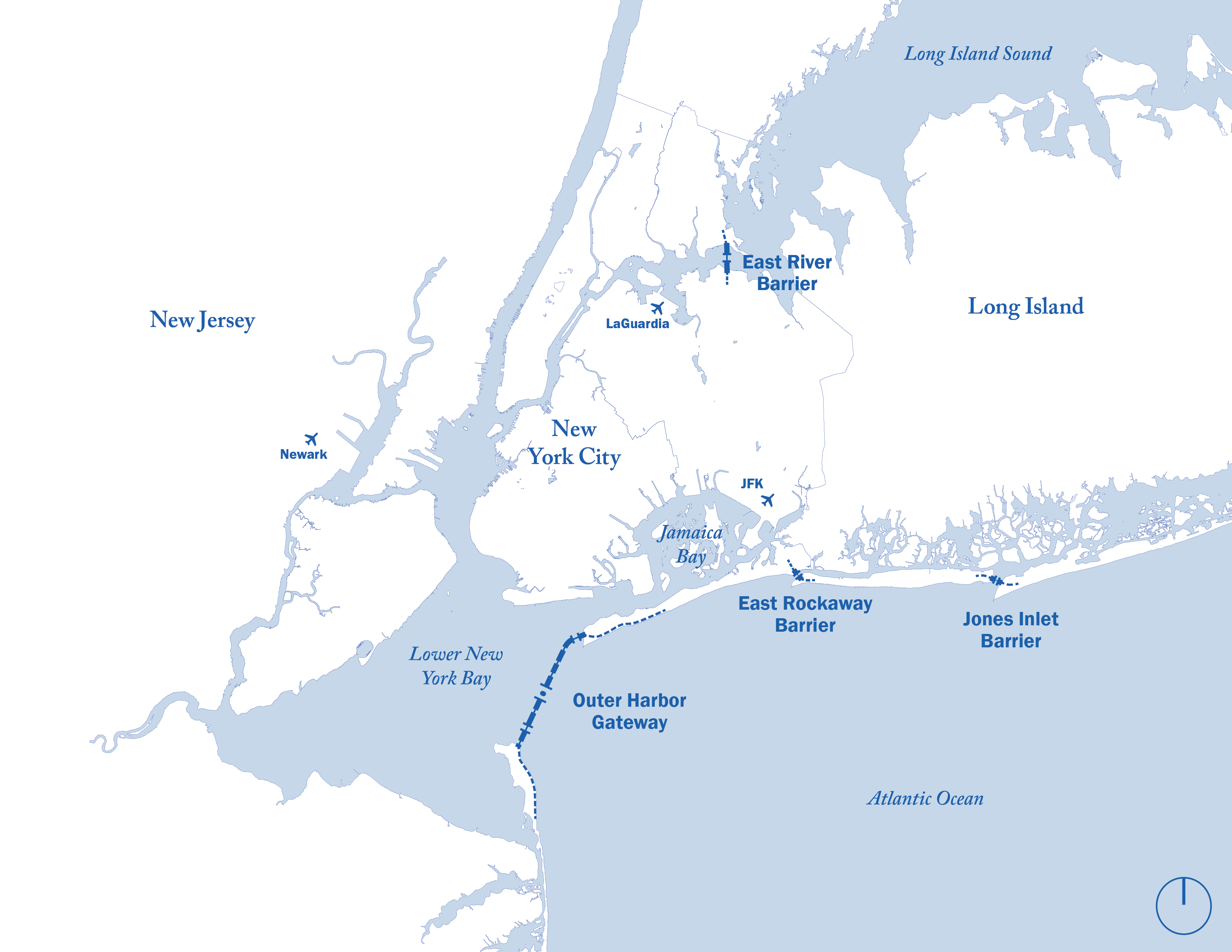 Map of proposed storm surge barrier locations around New York Harbor.